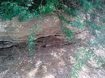 This photo taken at the tamilnadu, india one of the most famous river (vaigai) in india; which is affecting by sand mining. In this tamilnadu state rivers are used as sand mining place. This photo is taken at the vallal river is the one of the source branch river of the vaigai. What this photo says: the sands are not available. so that the agriculture destroyed totally. Lot of acres agriculture destroyed, and those are become drought lands. Coconut trees are forced to die, and empty trunk only exists those areas.